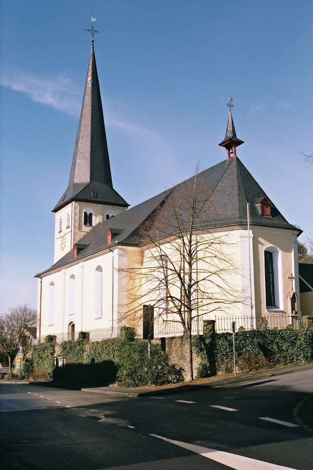 Catholic church St. Servatius, Winterscheid, municipality of Ruppichteroth